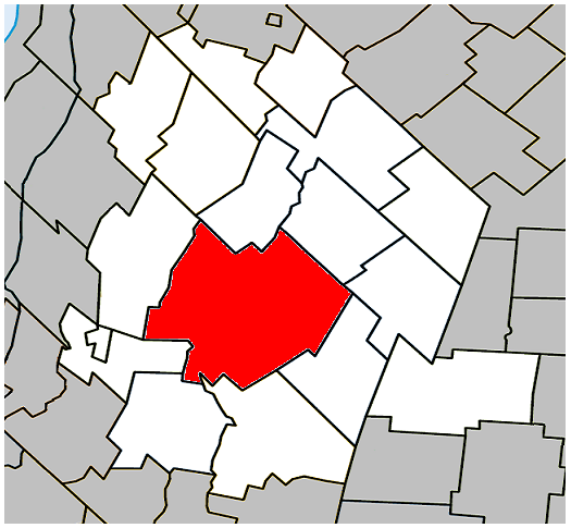 Location of Saint-Hyacinthe, Quebec within Les Maskoutains Regional County Municipality.